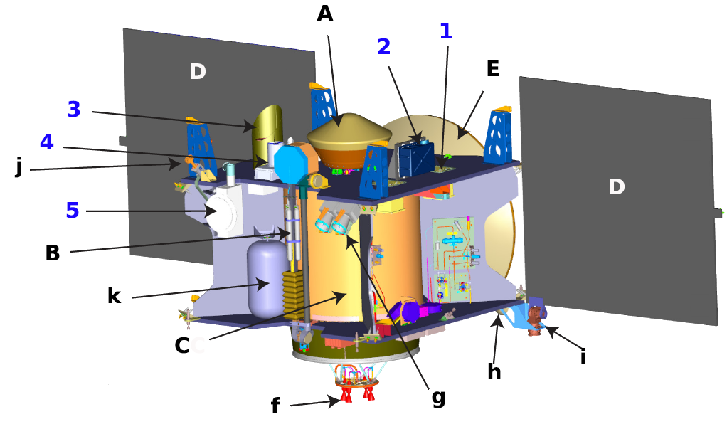 Diagram of the spacecraft OSIRIS-REx A Sample return capsule SRC ; B Sample Acquisition Mechanism TAGSAM ; C MRO-like structure ; D Solar arrays 8,5 m² active area ; E High gain antenne 2 mètres de diameter ; f 200 N. thrusters ; g Star Trackers ; h Middle gain antenna ; i 2-Axis gimbal ; j Low gain antenna ; k Helium tank ; 1 GN&C Lidar ; 2 altimeter OLA ; 3 cameras OCAMS ; 4 spectrometer OTES ; 5 infrared spectrometer OVIRS